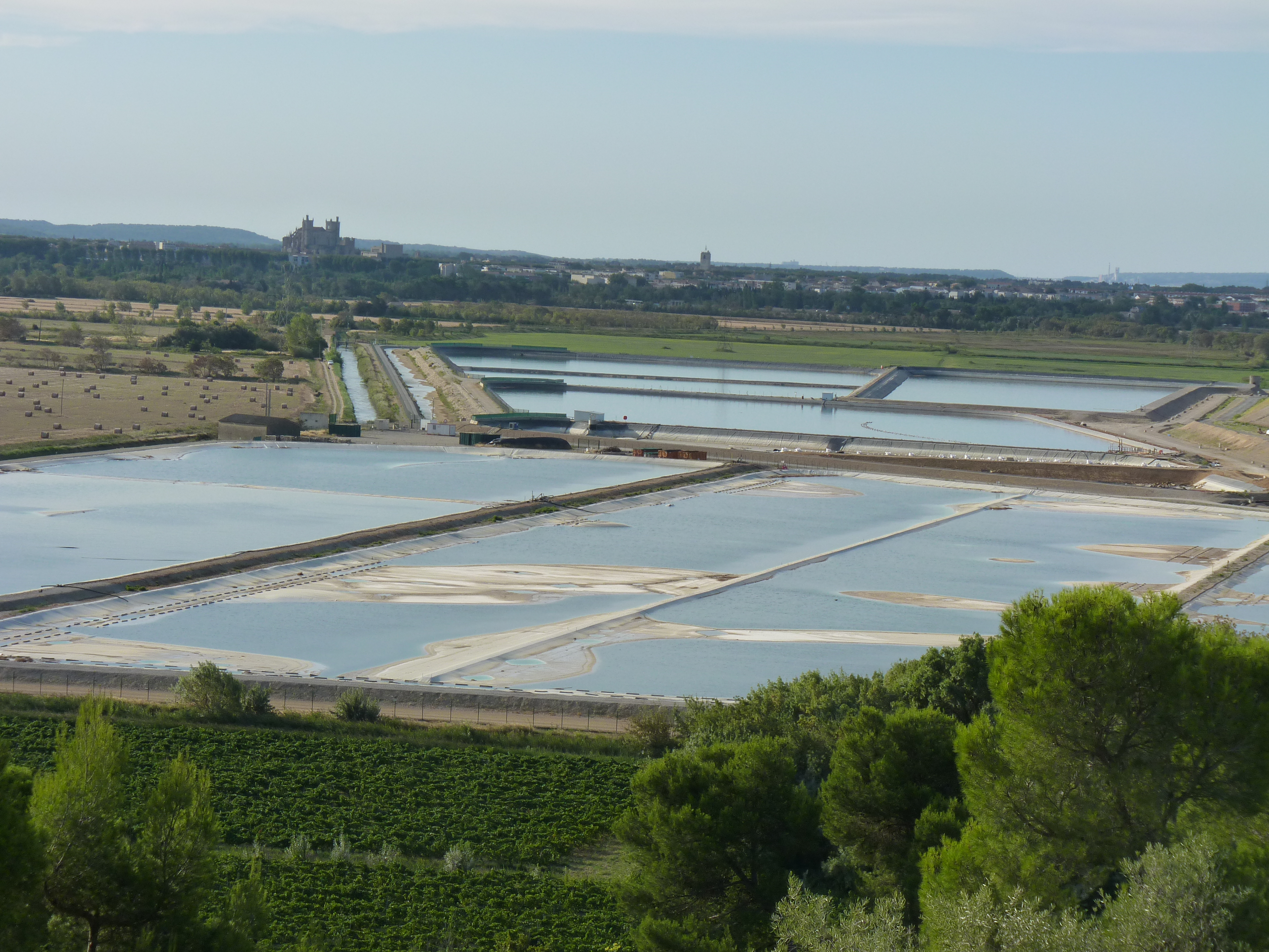 Orano Malvesi Factory : chemicals wastes basins. 2019, september